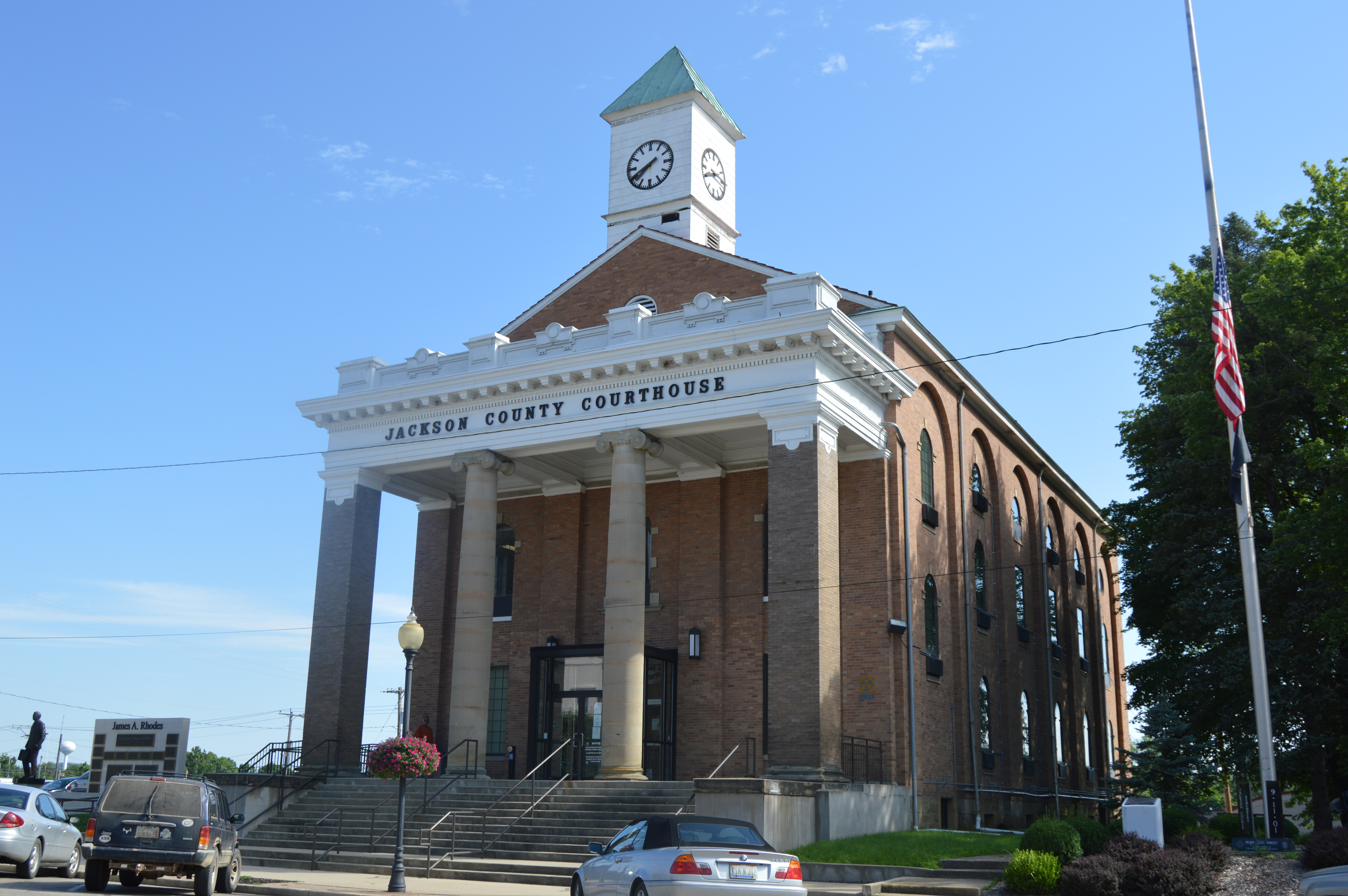 Front and southeastern end of the Jackson County Courthouse, located at 226 E. Main Street (State Route 93) in Jackson, Ohio, United States. Built in 1953, it replaced a previous courthouse that had been destroyed by fire.